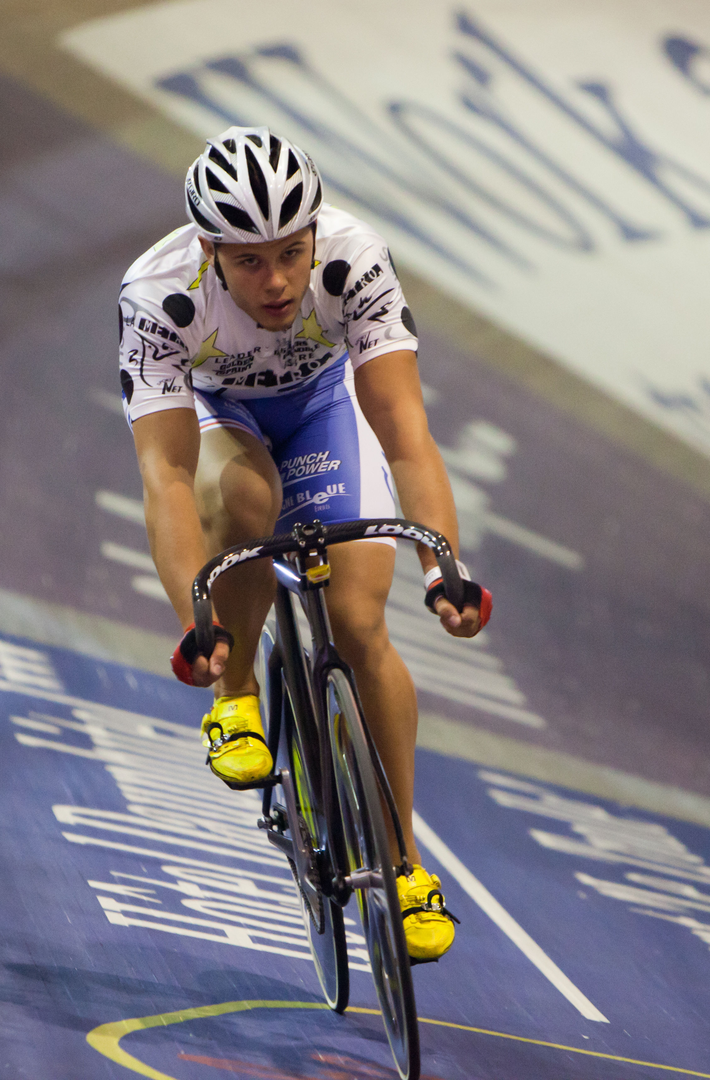 The making of this document was supported by Wikimedia CH. (Submit your project!) For all the files concerned, please see the category Supported by Wikimedia CH. Six jours de Grenoble 2011